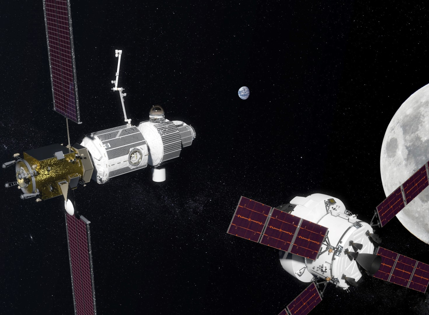 Deep Space Gateway in lunar orbit as proposed in 2017